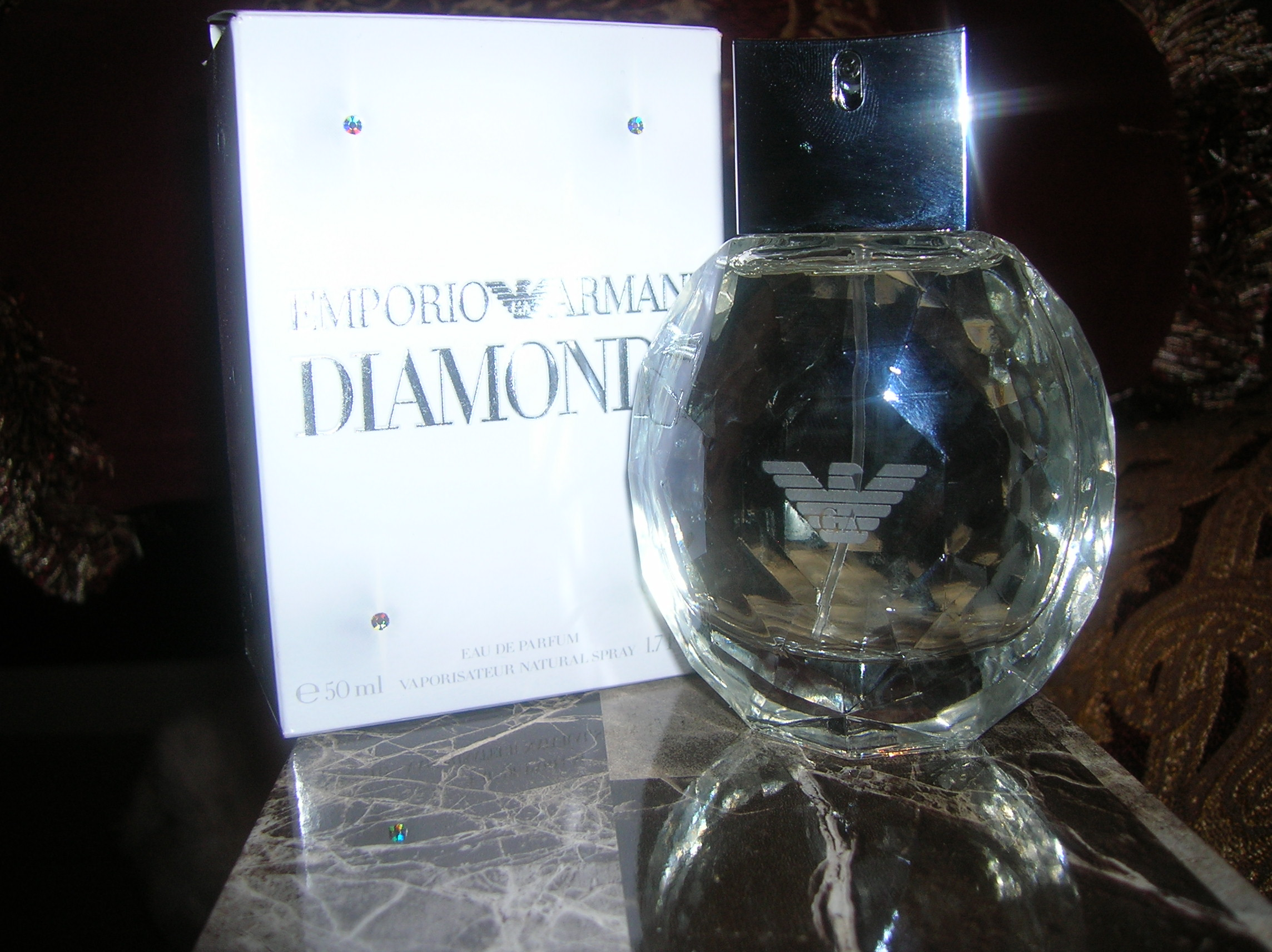 The picture that am uploading is of the perfume Emporio Armani Diamonds. It's a Krystal clear bottle shaped like a Diamond.